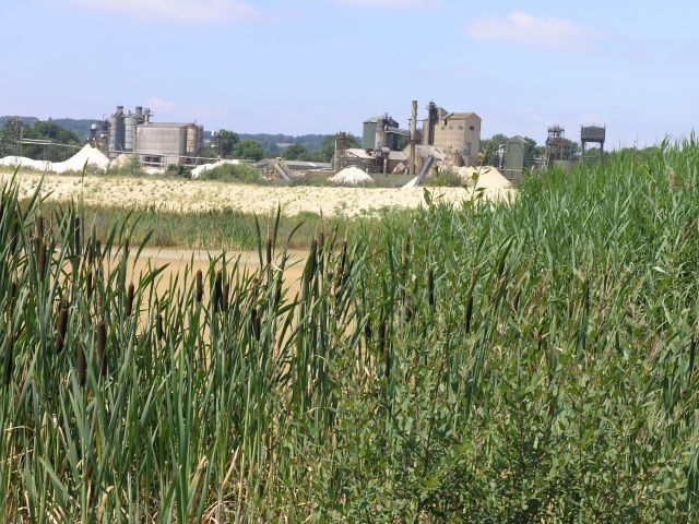 Holmethorpe Quarry. Quarry works in the distance with a sand pit in front.